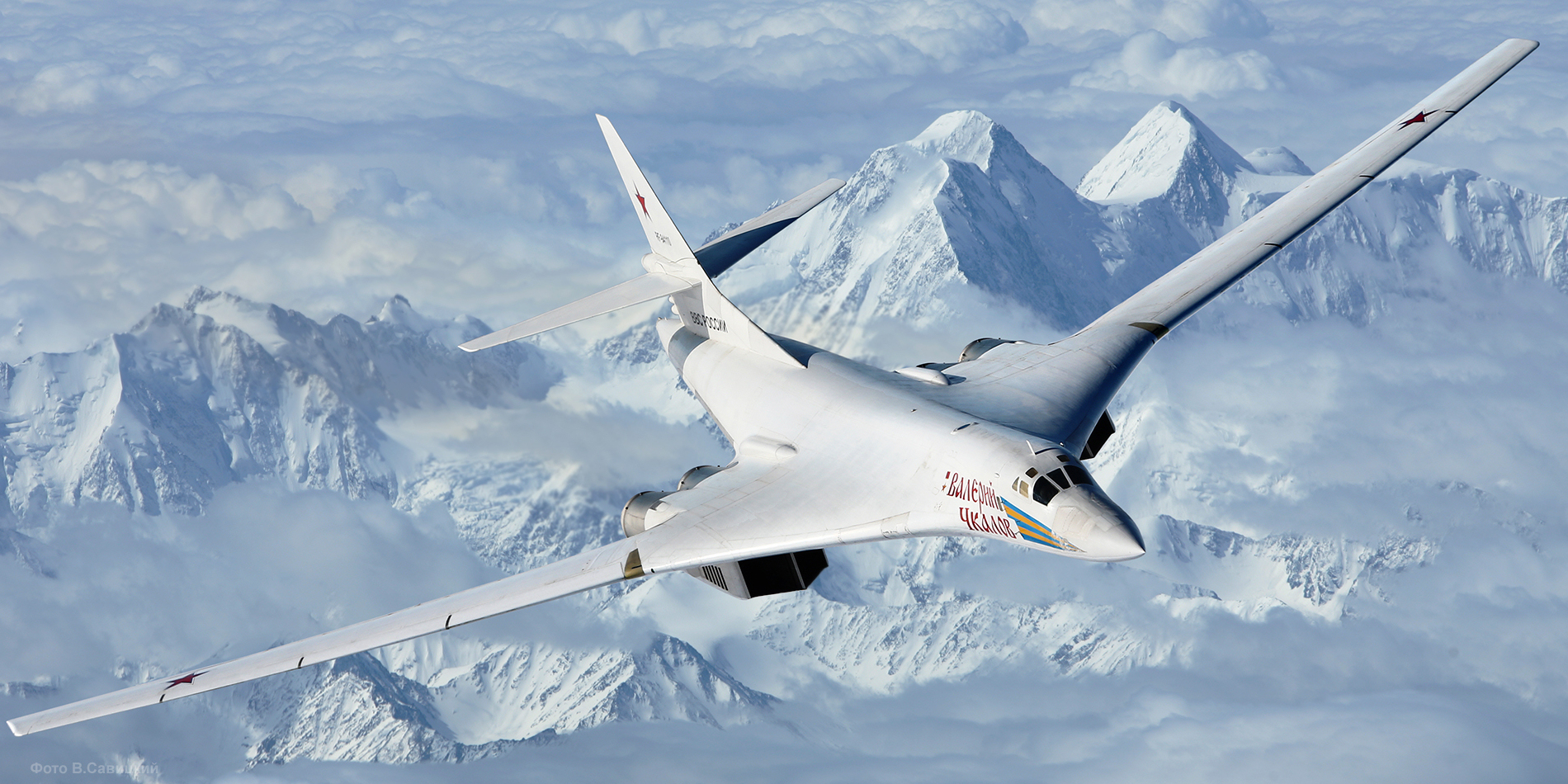 Air-to-air with a Tupolev Tu-160